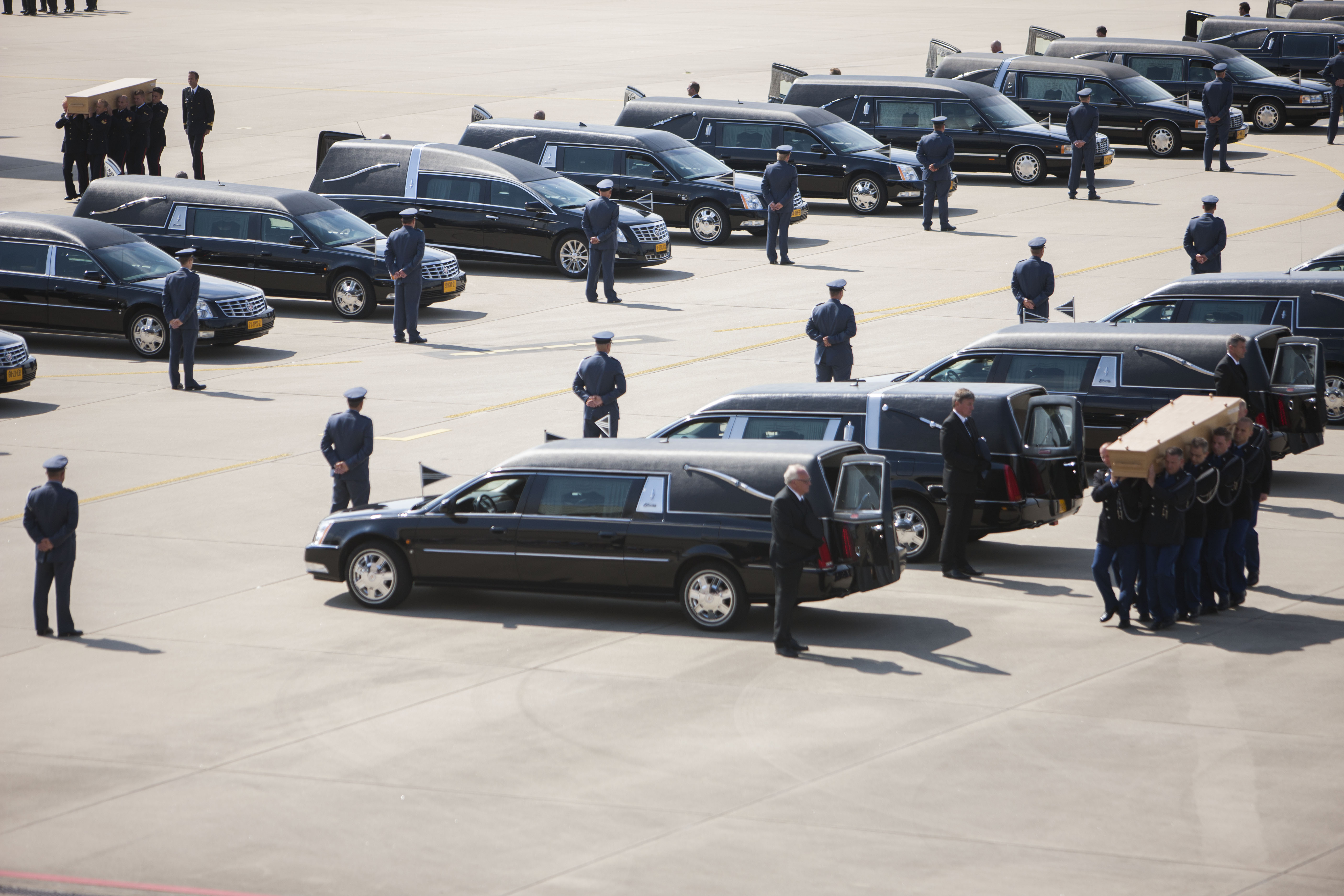 Hearses established at Eindhoven Air Base after the MH17 plane crash.